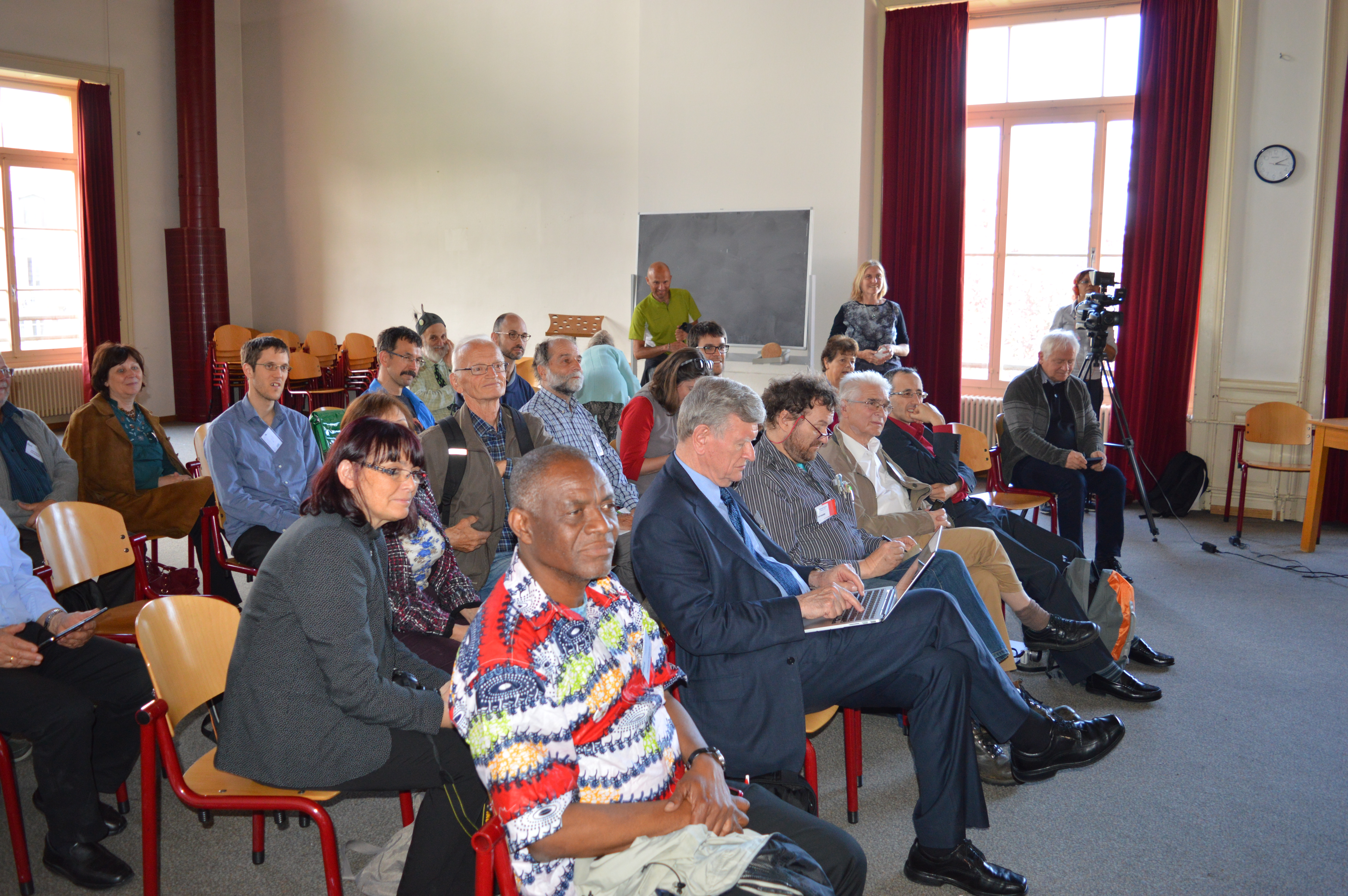 Concluding discussion of the third international conference on Esperanto teaching at La Chaux-de-Fonds, canton of Neuchatel, SwitzerlandEsperanto: Konkluda diskuto de la tria konferenco pri Esperanto-instruado, Neŭŝatelo, Svislando